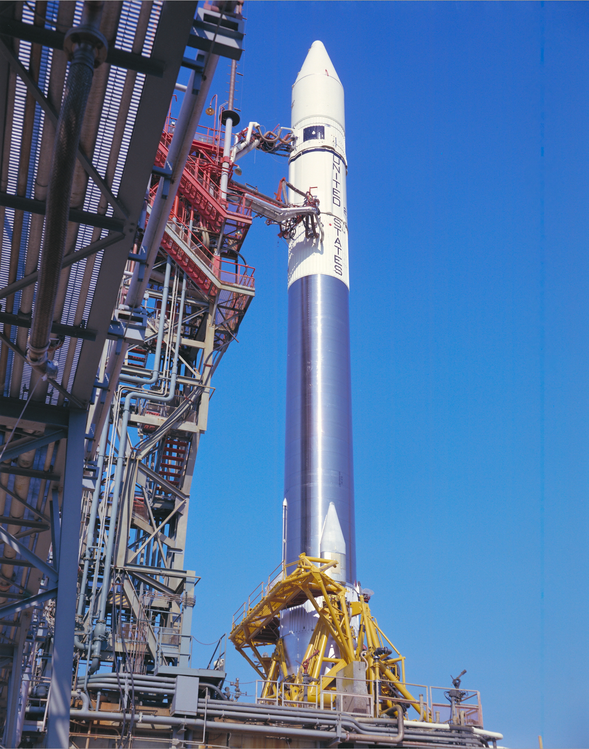 A pre launch view of Pioneer-10 (or F) spacecraft encapsulated and mated with a Atlas-Centaura launch vehicle in preparation for mission to Jupiter.